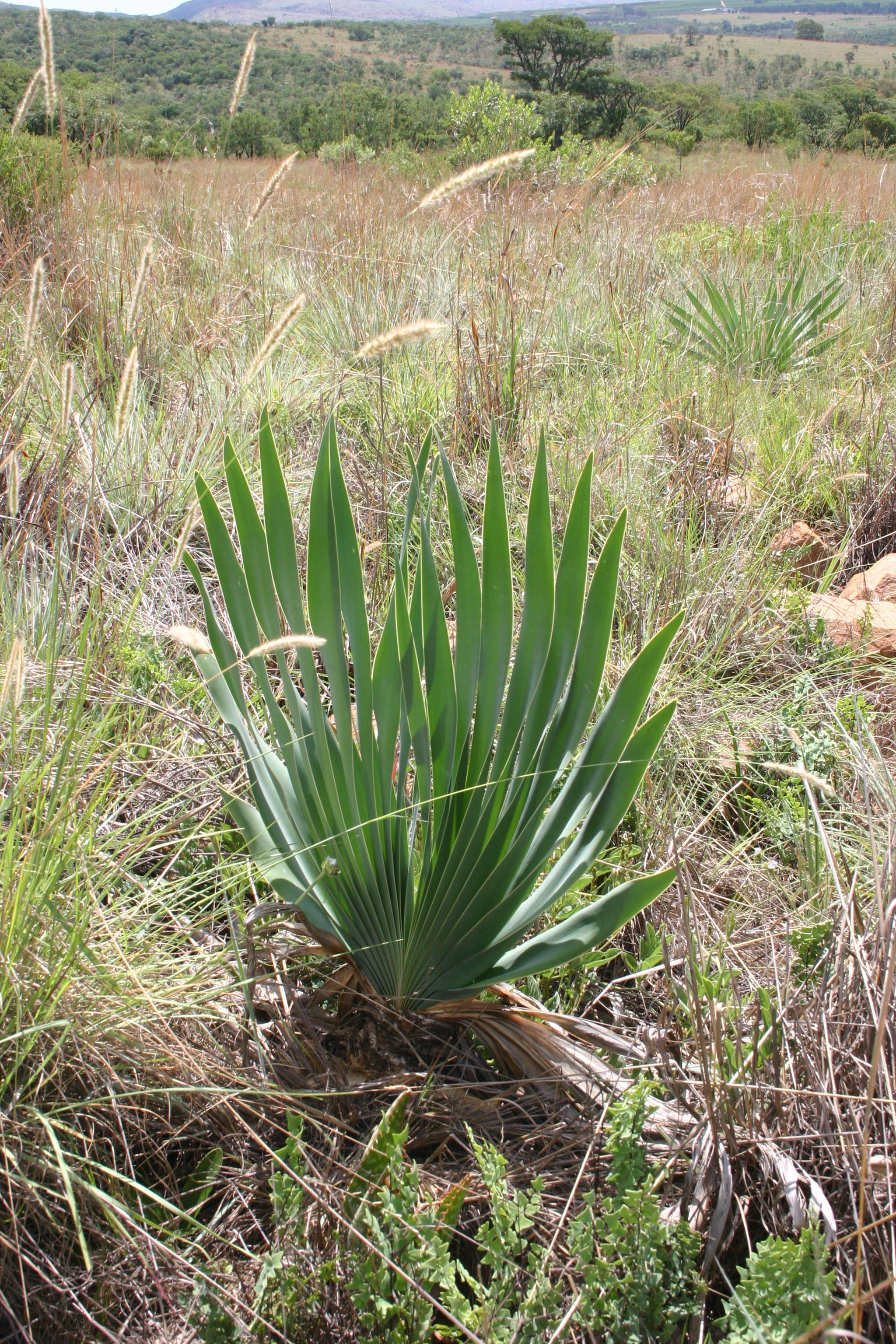 Boophone disticha plant in habitat - Hamerkop nr Sparkling Waters, Magaliesberg, South Africa